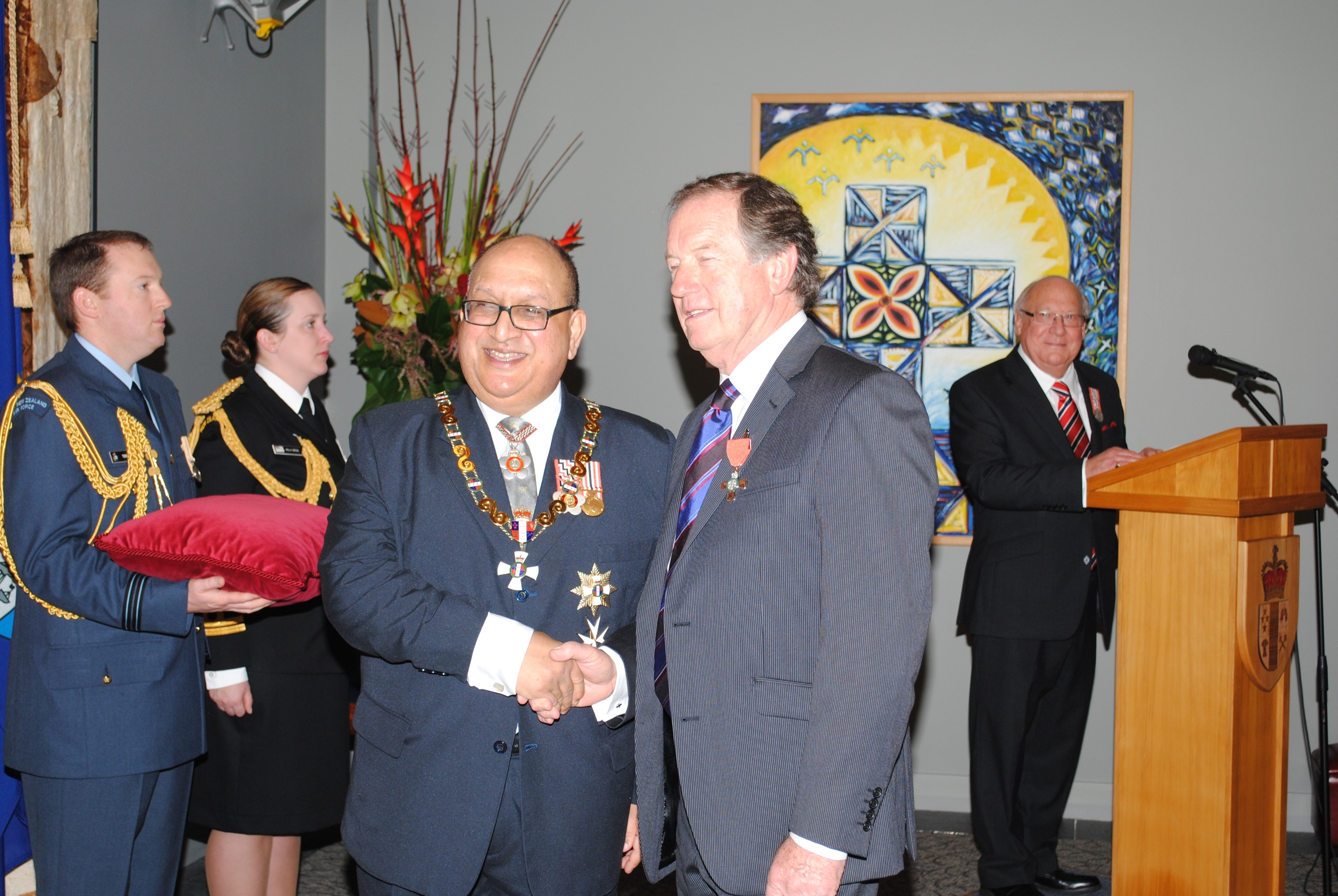 John Hawkesby (right), after his investiture as MNZM, for services to broadcasting and the community, by the governor-general, Sir Anand Satyanand, at Government House, Auckland, on 28 July 2011.